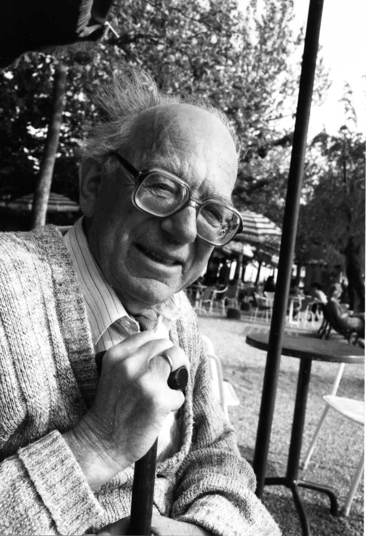 Herman Divendal in 1989